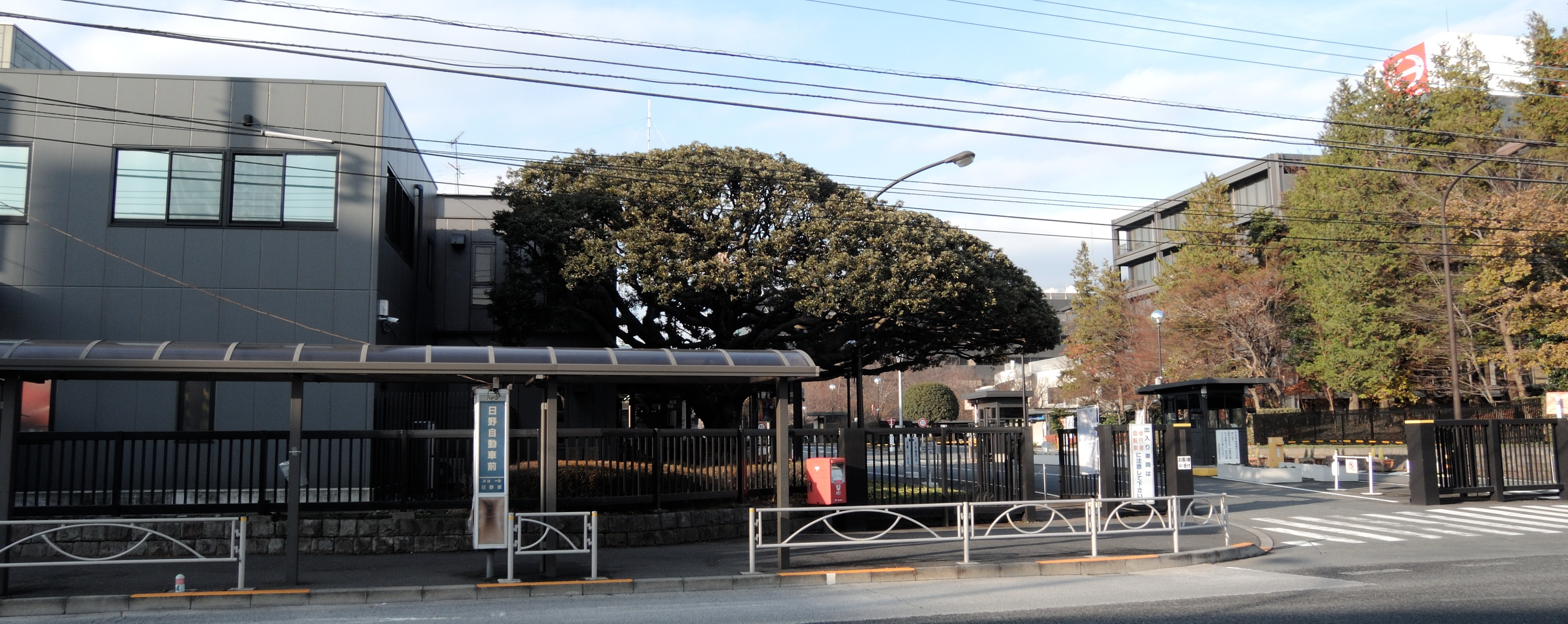 Headquarters of Hino Motors in Hinodai, Hino City, Tokyo Metropolis, Japan.